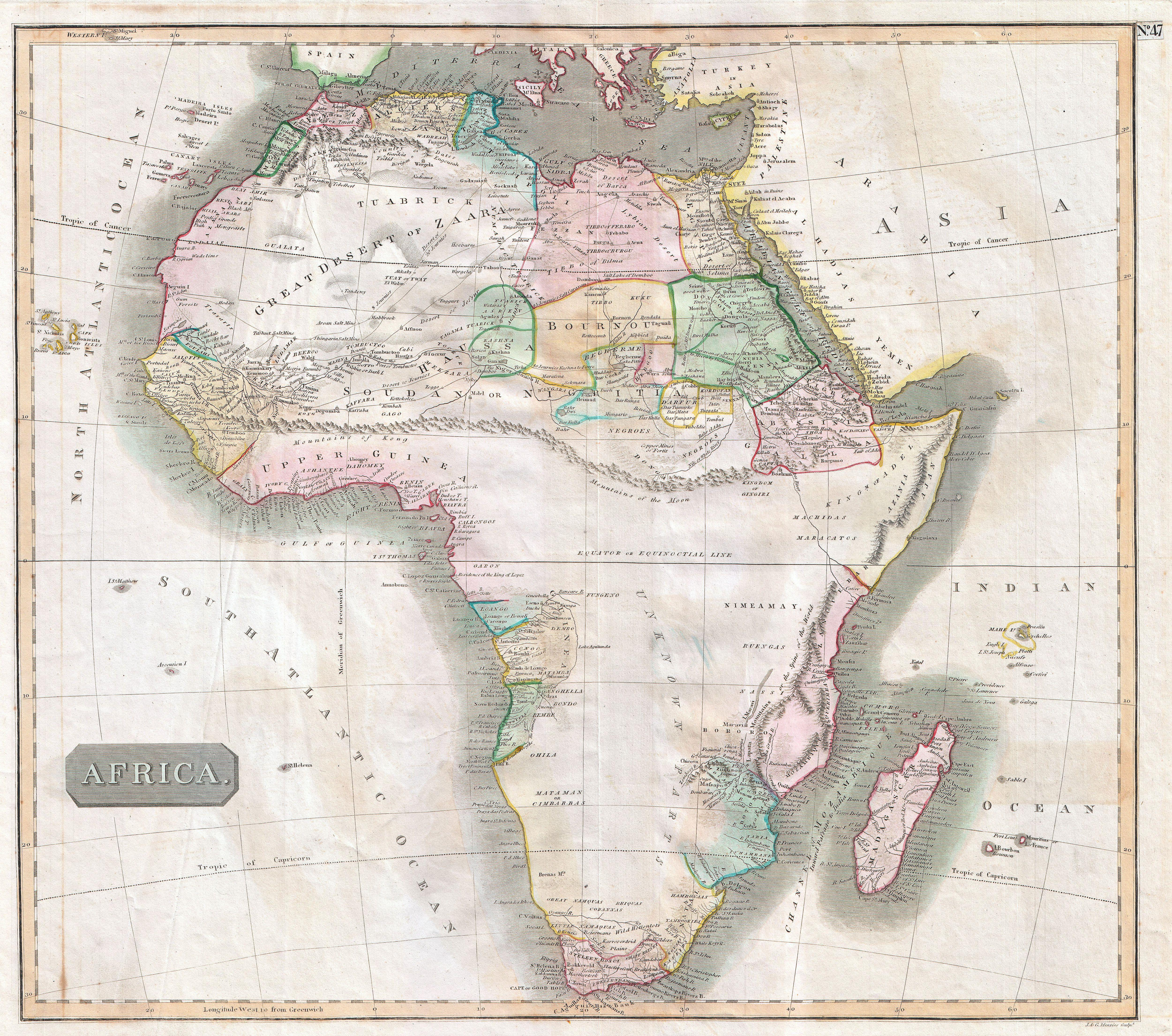 This hand colored map is a steel plate engraving, dating to 1813 by the important English mapmaker John Thomson. It is an early and historically important representation of the continent of Africa. Much of the continent is simply labeled “unknown parts”. Those sections that are known are surprisingly detailed. Caravan routes, temples, and even the distances between Oases are generally noted. Across the center of the continent Thomson details the mythical mountain range known as the “Mountains of the Moon”. The mountains of the moon were first postulated by Ptolemy to be the source of the Nile. This mysterious range remained on maps until the mid 19th century explorations of Burton, Speke, and Livingstone. Today it is generally agreed that references to the Mountains of the Moon refer to the Ruwenzori Range of Kenya & Uganda. This mountain range remains one of the most remote and exotic places on Earth, and is the home of a diversity of bizarre plant and animal life. However, it is not, as postulated, the source of the Nile which lies just to the south in Lake Victoria. Neither Lake Victoria nor Lake Tanganyika, which appear in much earlier Bleau maps, appear on this map. Thomson maps are known for their stunning color, awe inspiring size, and magnificent detail. Thomson’s work, including this map, represents some of the finest cartographic art of the 19th century.